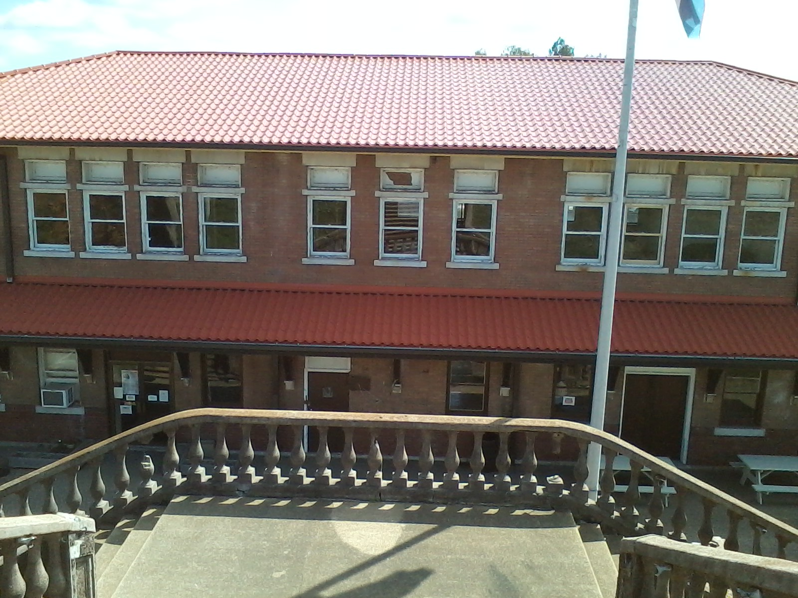 Poplar Bluff train station and stairway